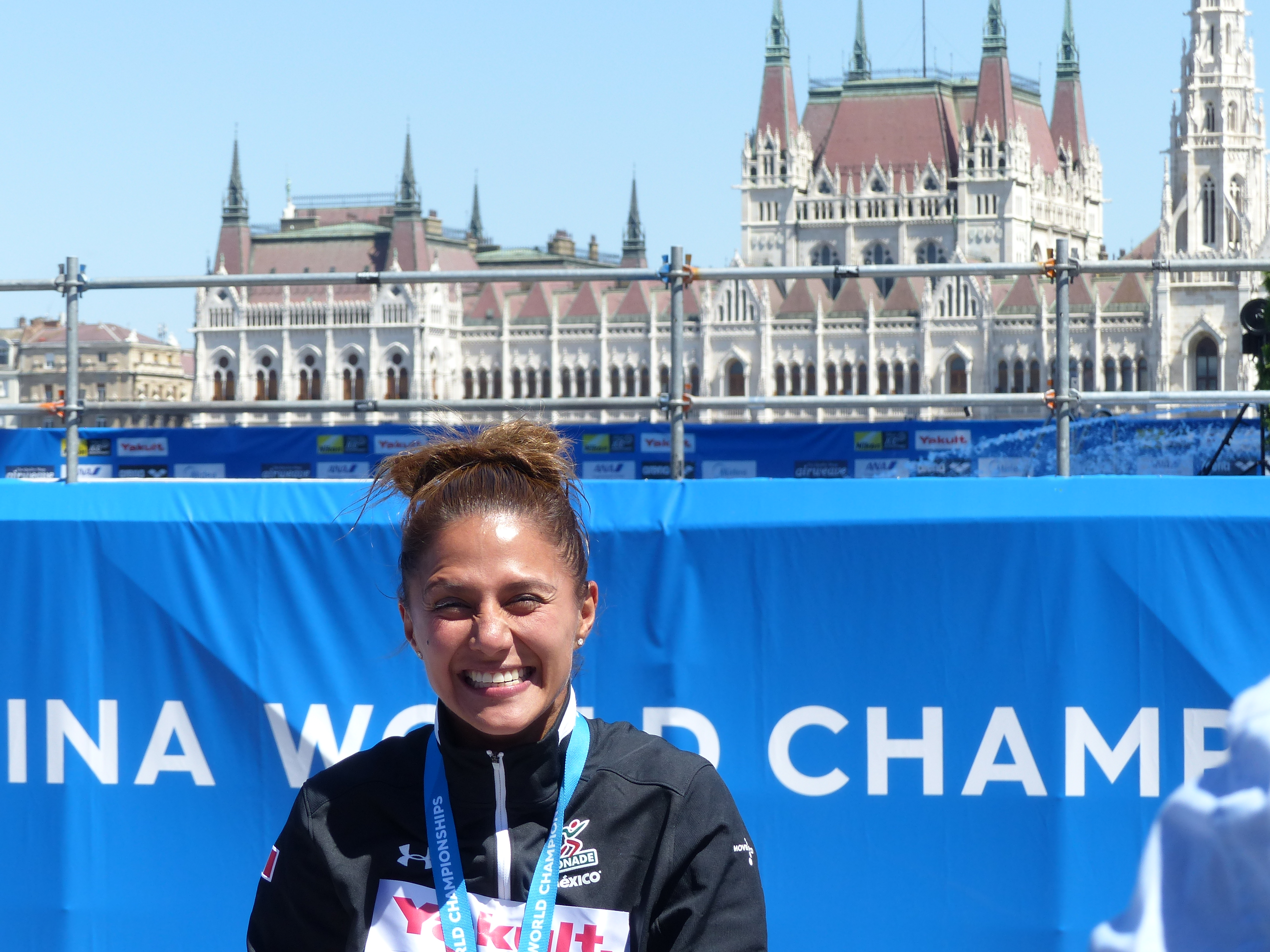 Adriana Jimenez (Mexico). 2017 World Aquatics Championships-High Diving. Mexico’s Adriana Jimenez won silver with a score of 308.90. Sourceː 20170806